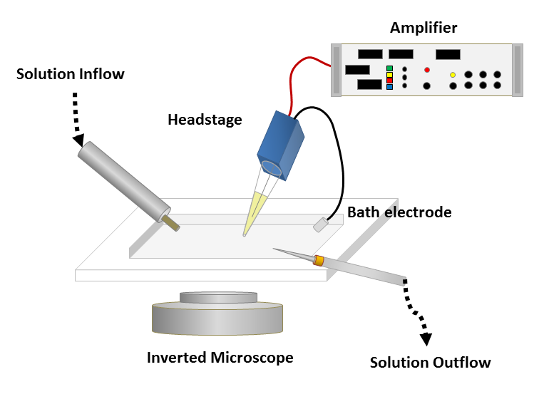 Schematic of patch clamp setup including micropipette, amplifier, microscope, inflow and outflow